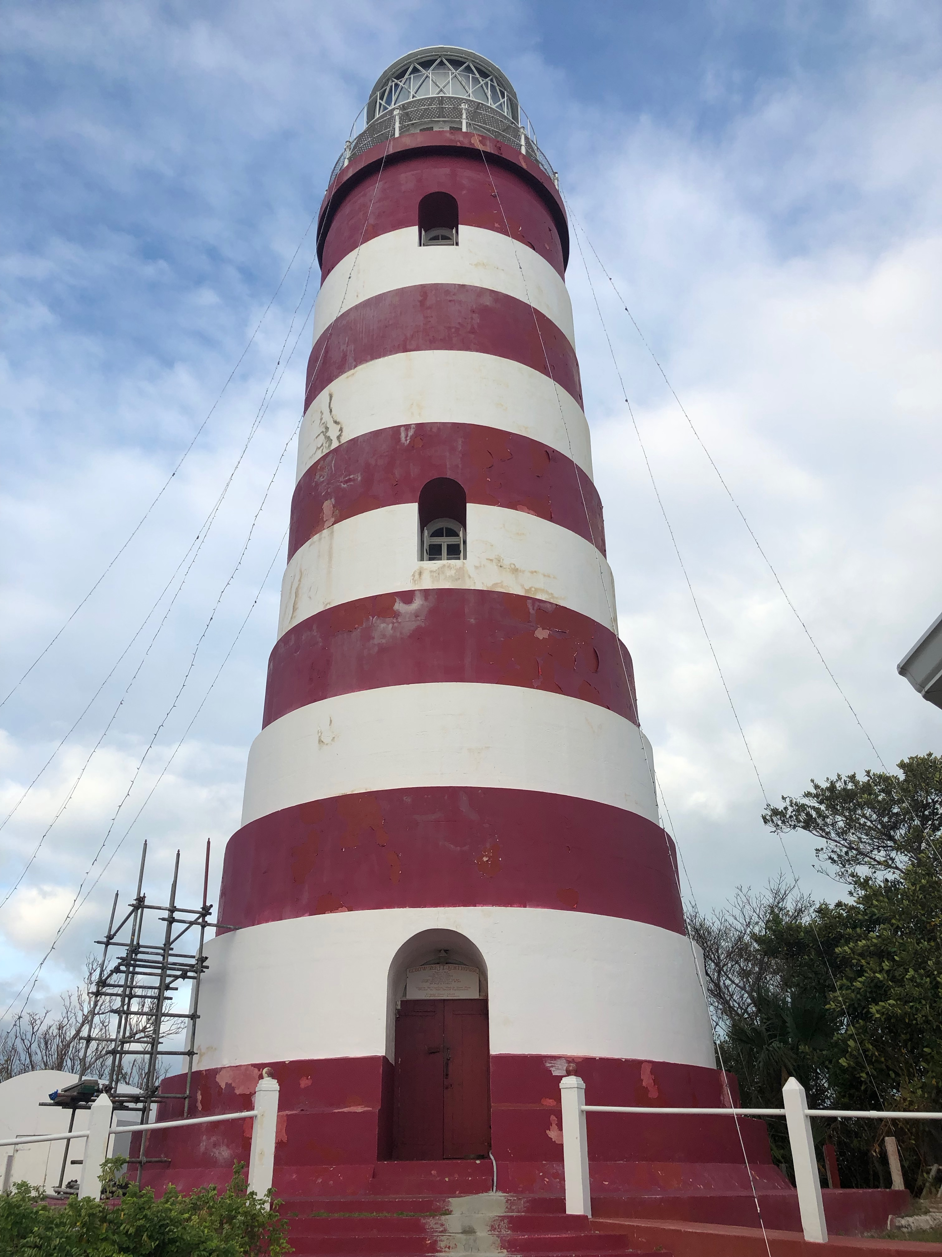 Elbow Reef Lighthouse in Hope Town, Abaco, Bahamas